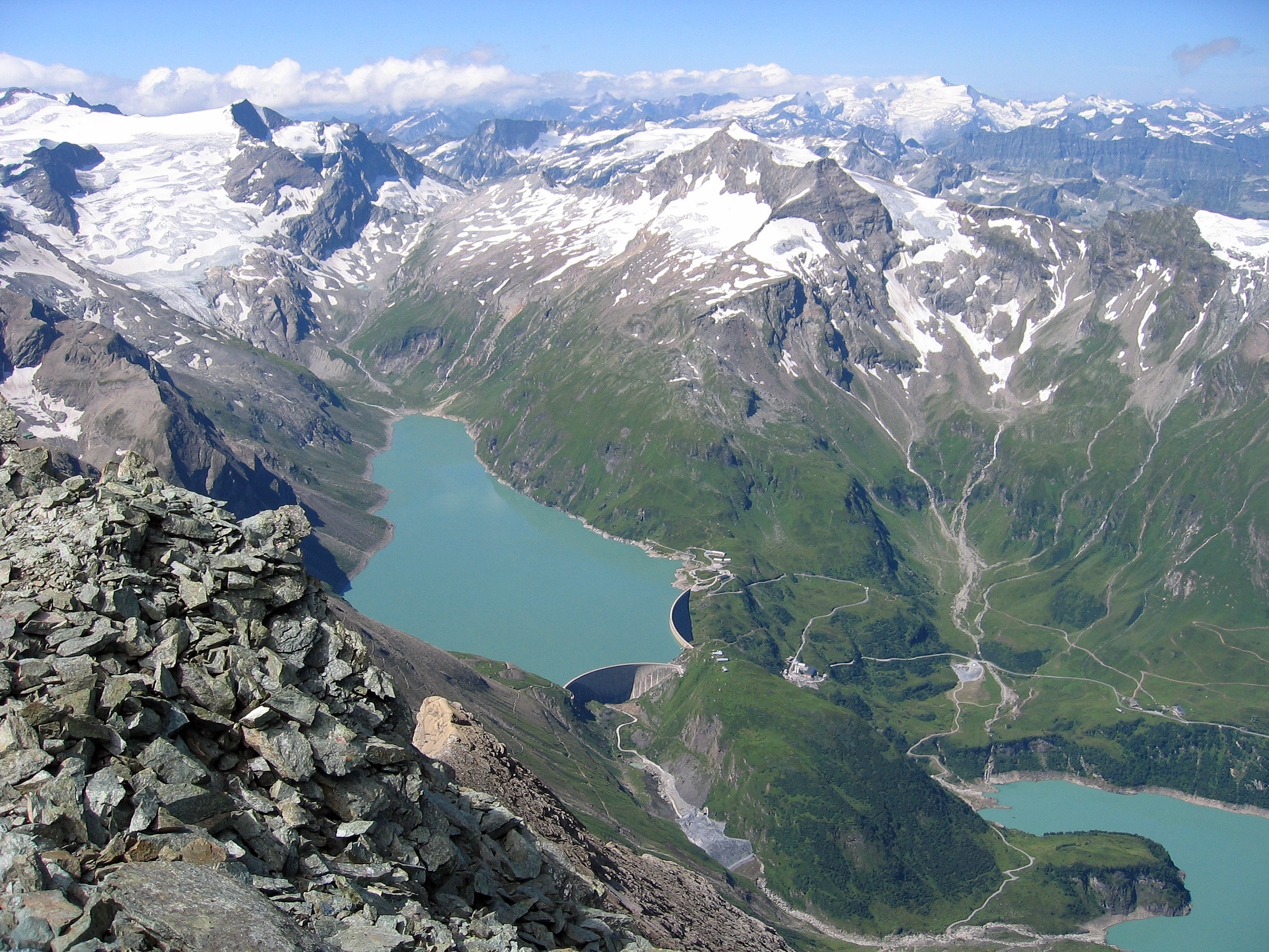 Stausee Mooserboden, seen from Hoher Tenn, Austria